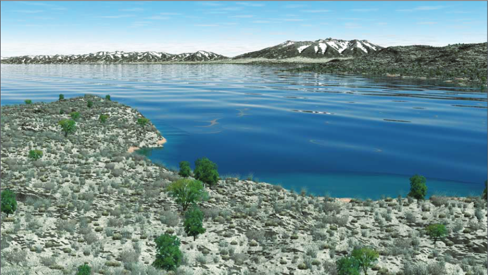 Re-creation of Lake Alamosa. View to the northeast from the area of stop B4. Highest peak in the background is Blanca Peak at 14,345 ft asl. Visualization created in Visual Nature Studio (v. 2.7, 3D Nature Co.) by Paco Van Sistine (USGS) using 30-m DEM and a lake elevation of 7,660 ft (2,335 m).